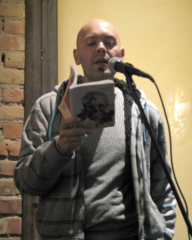 Ukrainian poet Bohdan-Oleh Horobchuk reading at "Kyivski lavry" (Kyiv Laurels) poetry festival